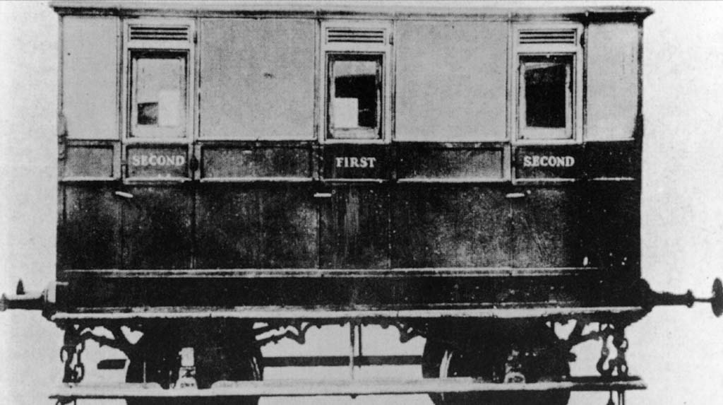 The first passenger carriage of the Natal Railway Company